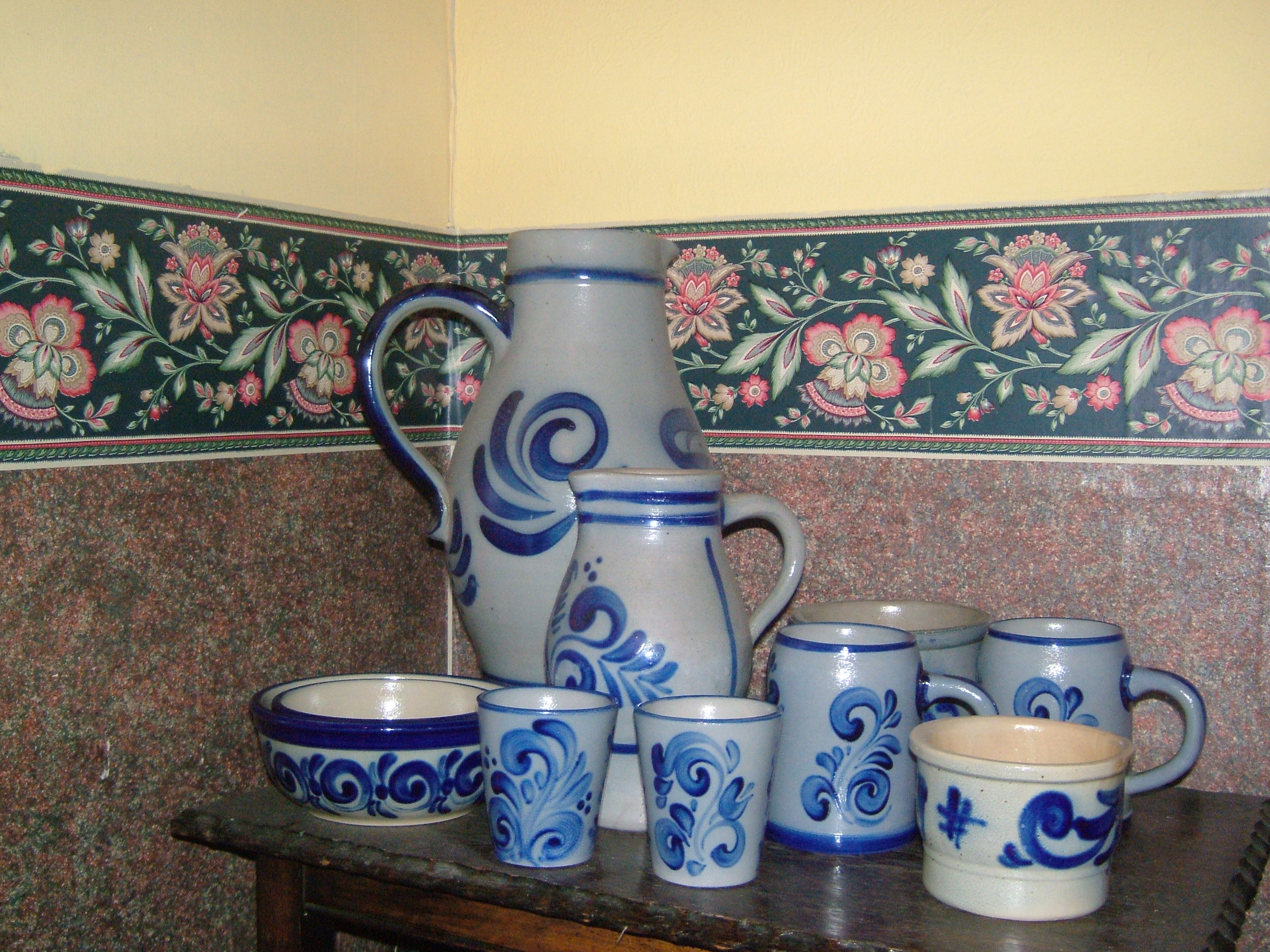 Westerwald Pottery or Stoneware is a distinctive type of salt glazed grey pottery from the Höhr-Grenzhausen and Hilgert area of Westerwaldkreis in Rhineland-Palatinate, known as Kannenbäckerland. Everyday domestic pottery, bought in Hilgert. Typical swirling blue decoration on grey.